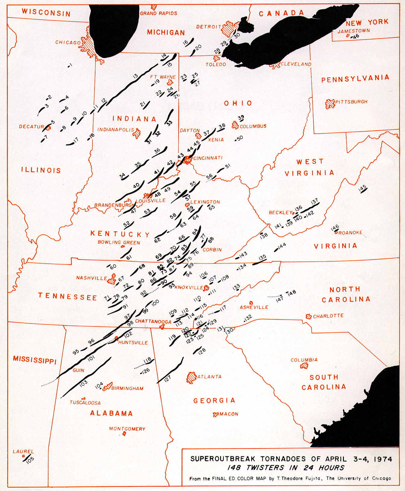 Tracks of tornadoes generated during the 1974 Super Outbreak.